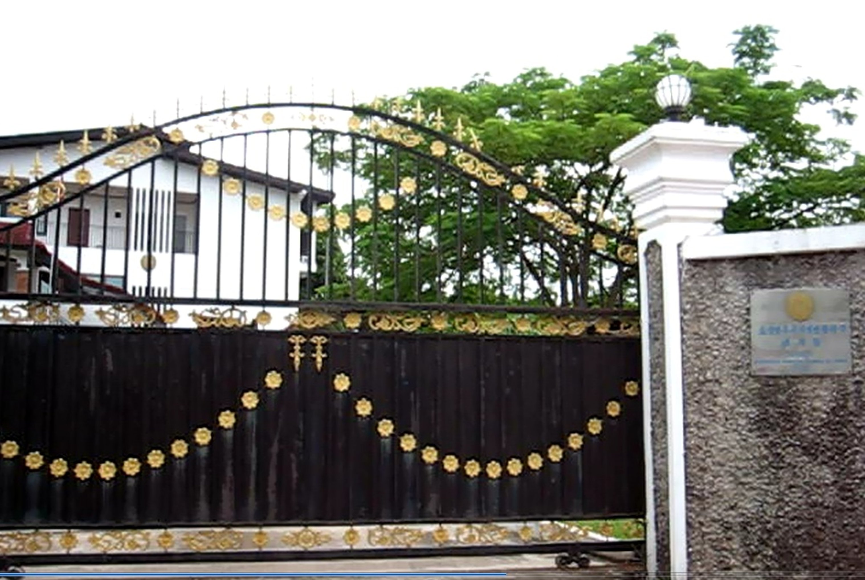 DPRK Embassy in Laos